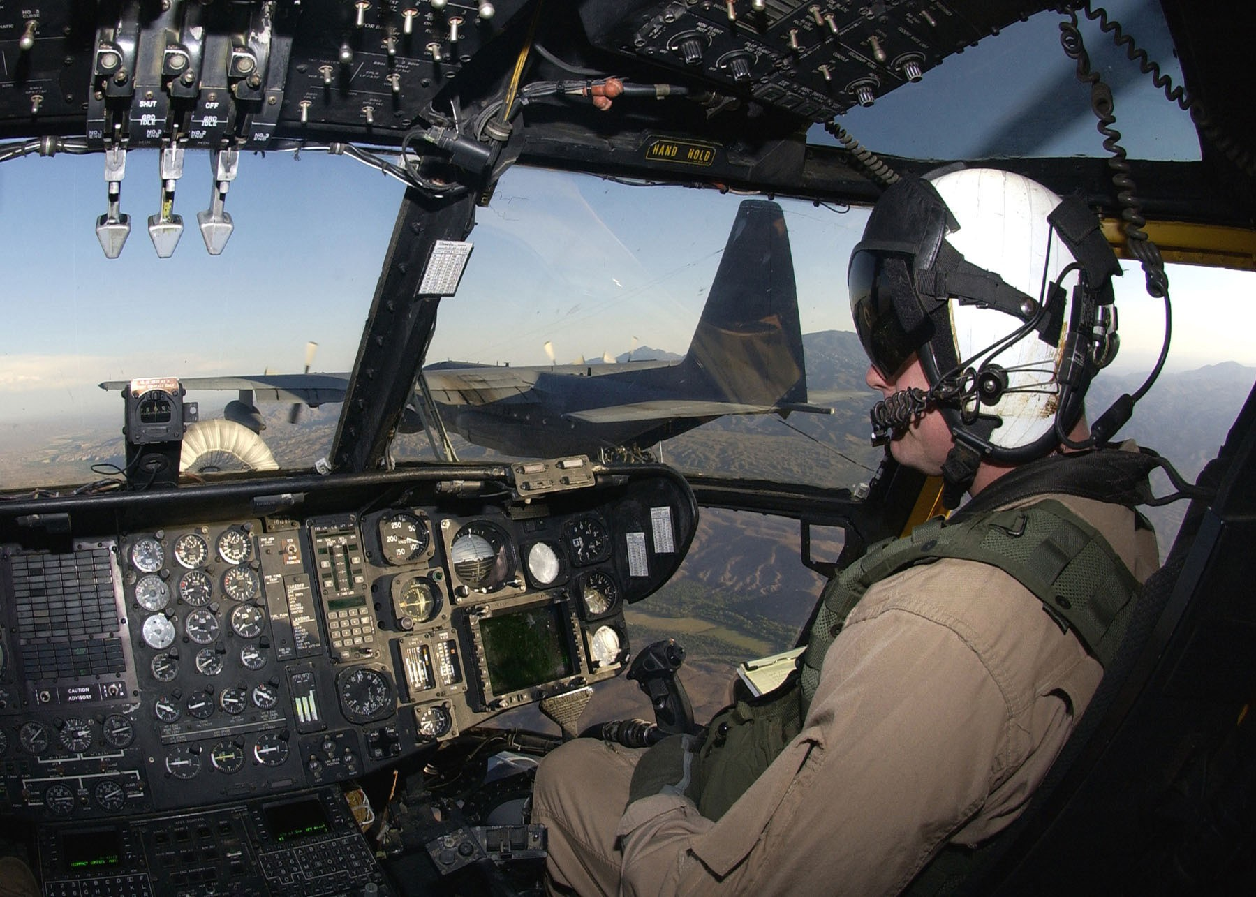 U.S. Marine Corps Maj. David Montesano flies a CH-53E Super Stallion helicopter during an in-flight refueling operation with an Air Force HC-130 Hercules aircraft over Davis-Monthan Air Force Base, Ariz., on June 20, 2006. Montesano and his Super Stallion are attached to the Marine Heavy Helicopter Squadron769, at Edwards Air Force Base, Calif. The Hercules is from the 79th Rescue Squadron at Davis-Monthan.